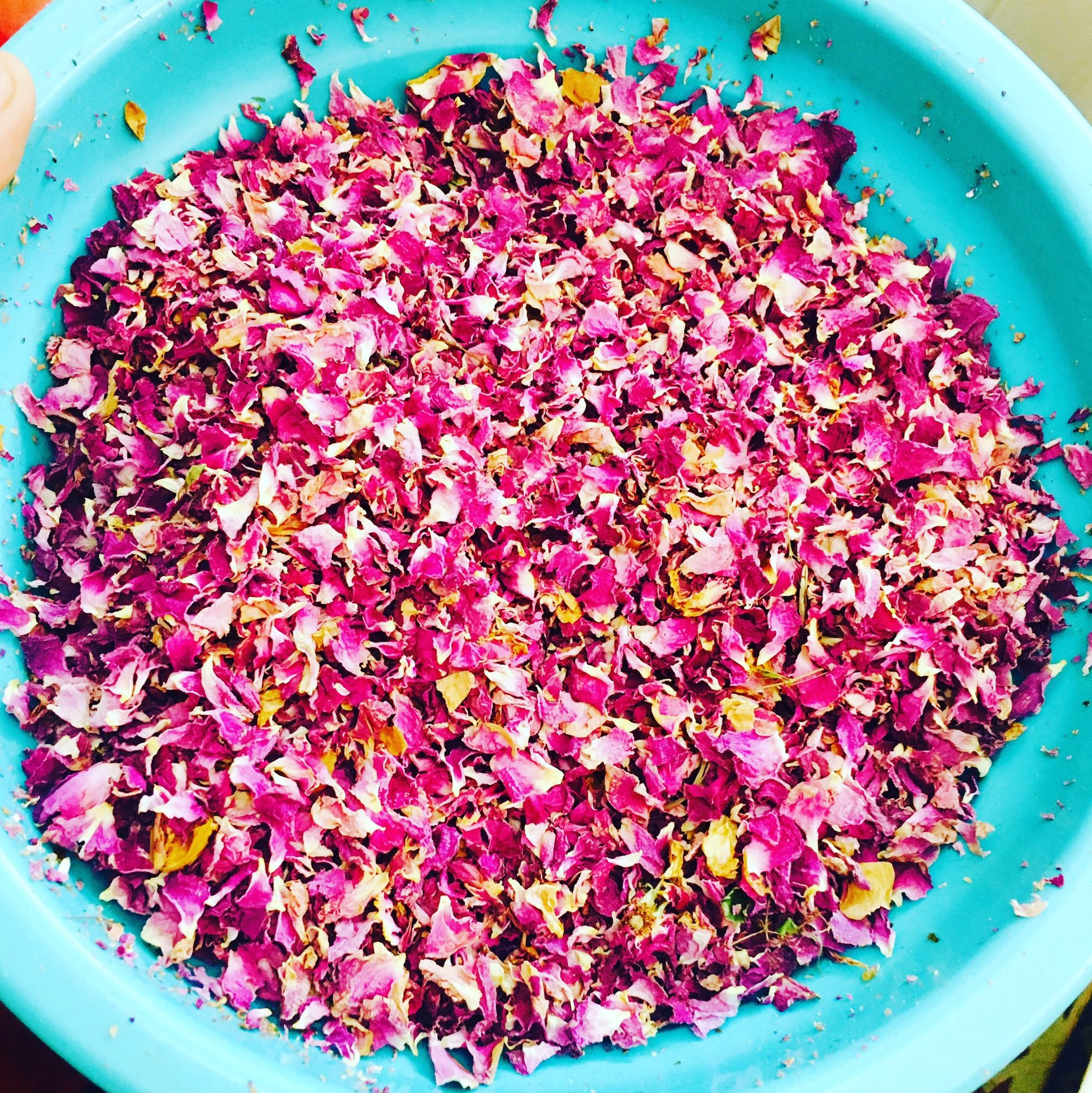 Dried Rosa × damascena, more commonly known as the Damask rose to be used in Jam